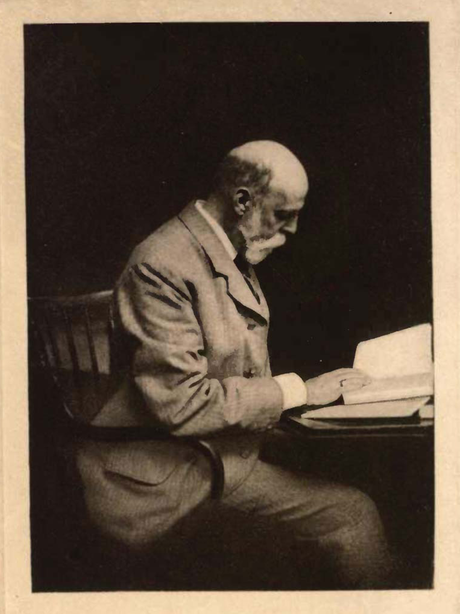 Alexander W. Drake, image from Three Midnight Stories. Private printing 1916, scanned from family-owned copy of original work. Alexander W. Drake, image from Three Midnight Stories. Private printing 1916, scanned from family-owned copy of original work.